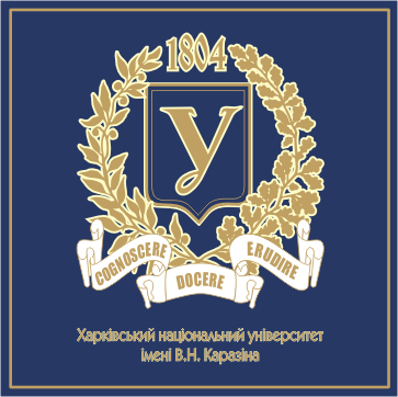 The current logo of the Vasyl Karazin Kharkiv National University, Kharkiv, Ukraine